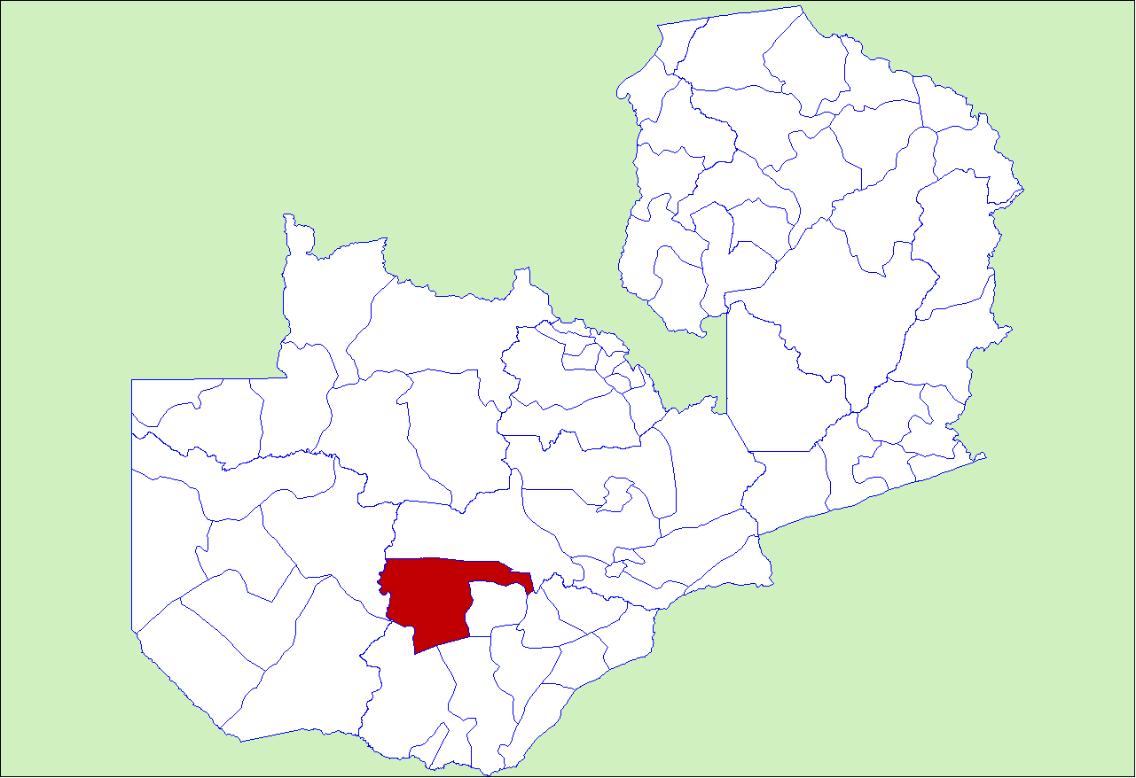 District locator in Zambia